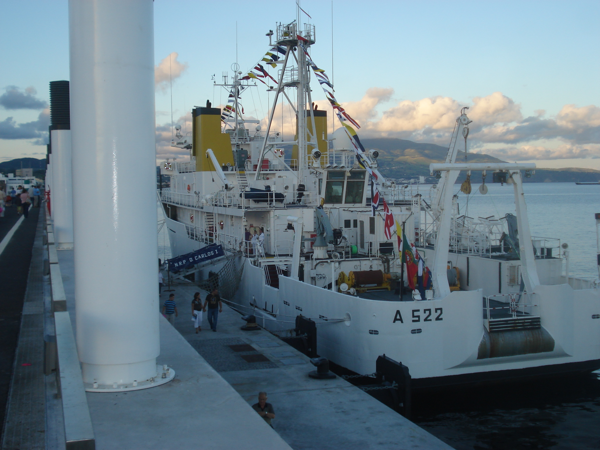 The aft of the NRP Dom Carlos I at dock at the Portas do Mar, municipality of Ponta Delgada (Azores), Portugal